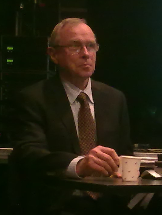 Finnish academic Pekka Visuri.